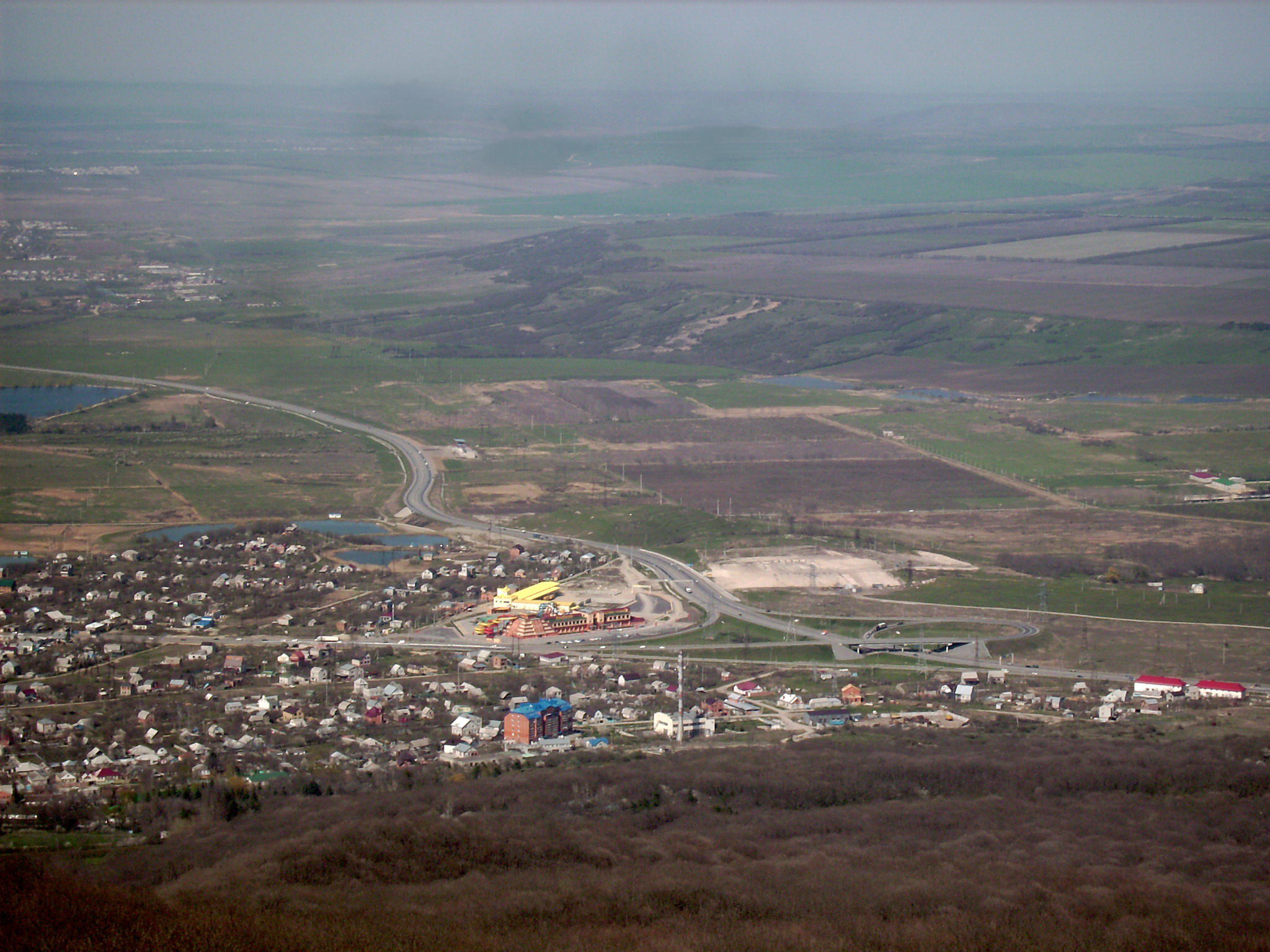 M29 "Caucasus" highway near Pyatigorsk photographed from Mashuk mountain